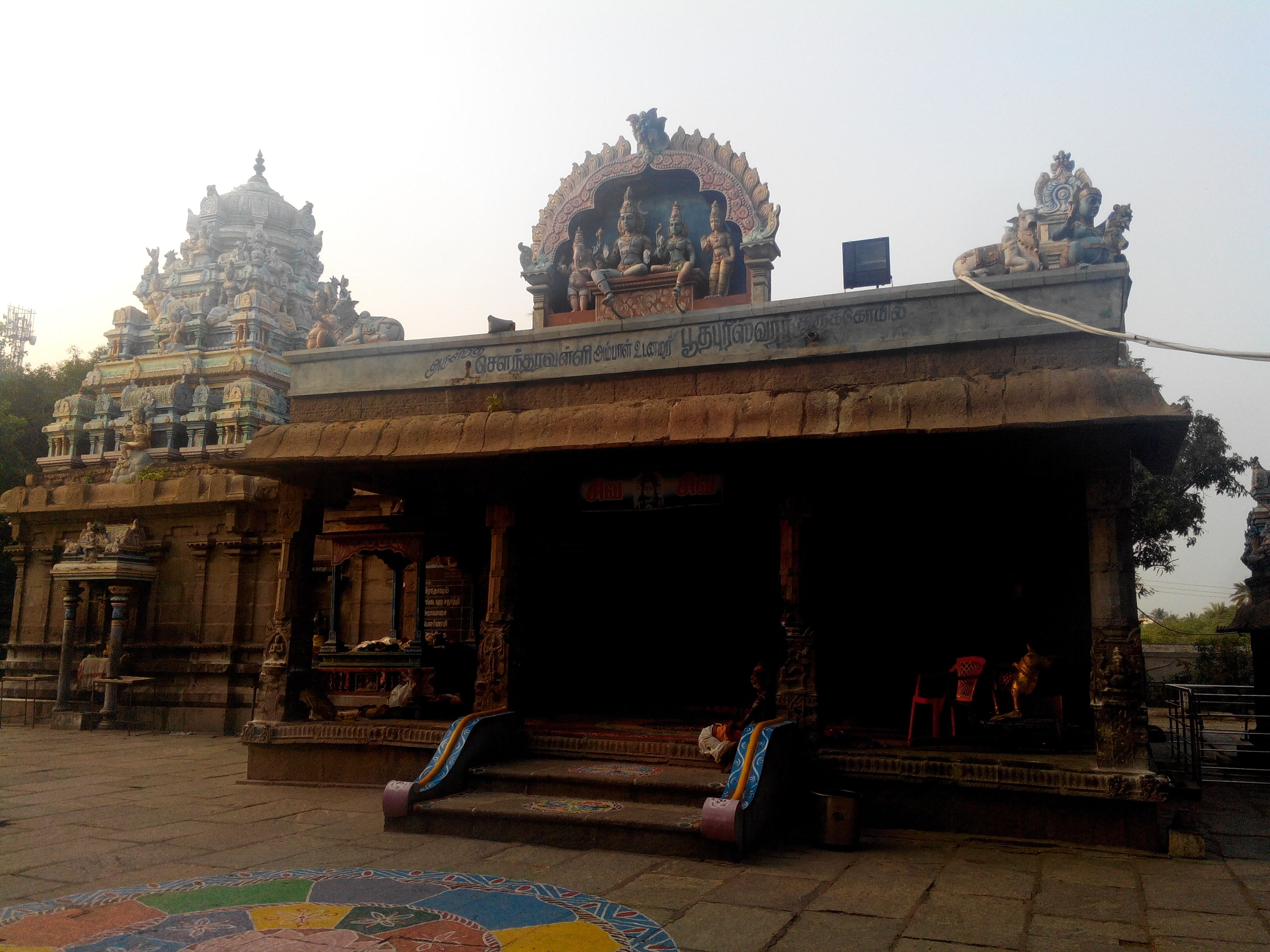 ஸ்ரீபெரும்புதூர் பூதபுரிசுவரர் கோயில் தோற்றம்